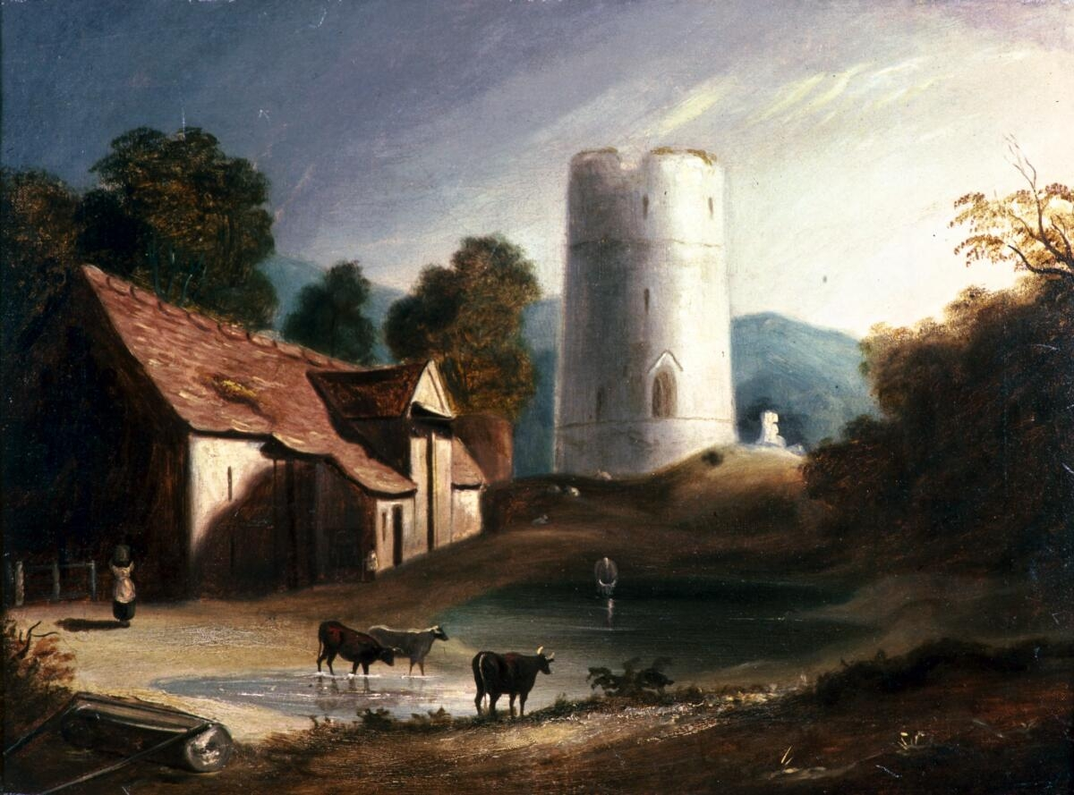 A painting from the Framed Works of Art collection at the National Library of wales.